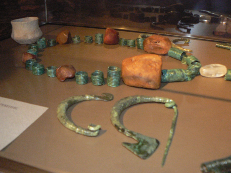 Funeral offerings, part of a Thracian tumulus funeral, village Belish, 8-7 century BC. Exhibits of the National History Museum of Bulgaria